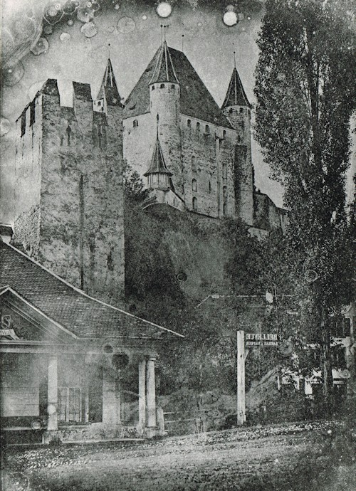 Daguerrotype photograph of Thun Castle, Sitzerland, taken by Franziska Möllinger c. 1844. It is the only daguerrotype of hers which has been preserved.